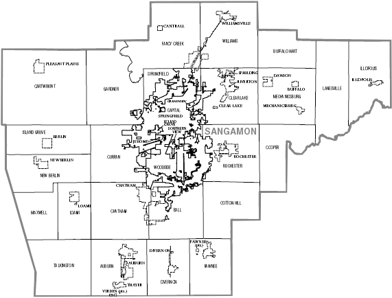 Township map of Sangamon County, Illinois